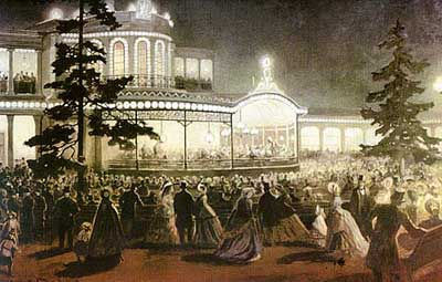 The ball of 1862 on the occasion of 25th anniversary of the Tsarkoye Selo Railways. Canvas, oil